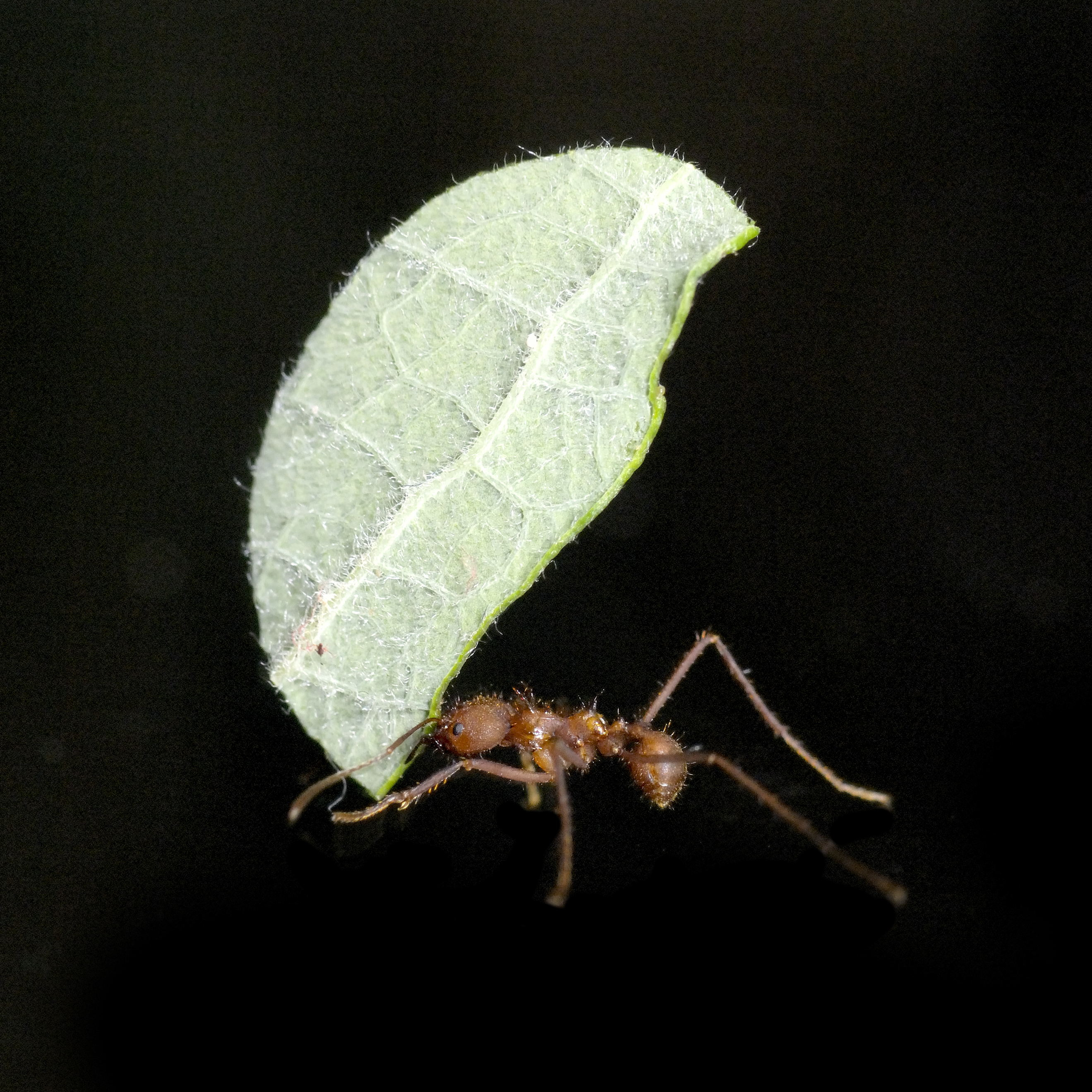 Austria, Vienna, Tiergarten Schönbrunn